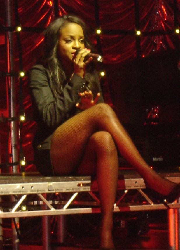 Buchanan performing live at the Hammersmith Apollo, April 2005